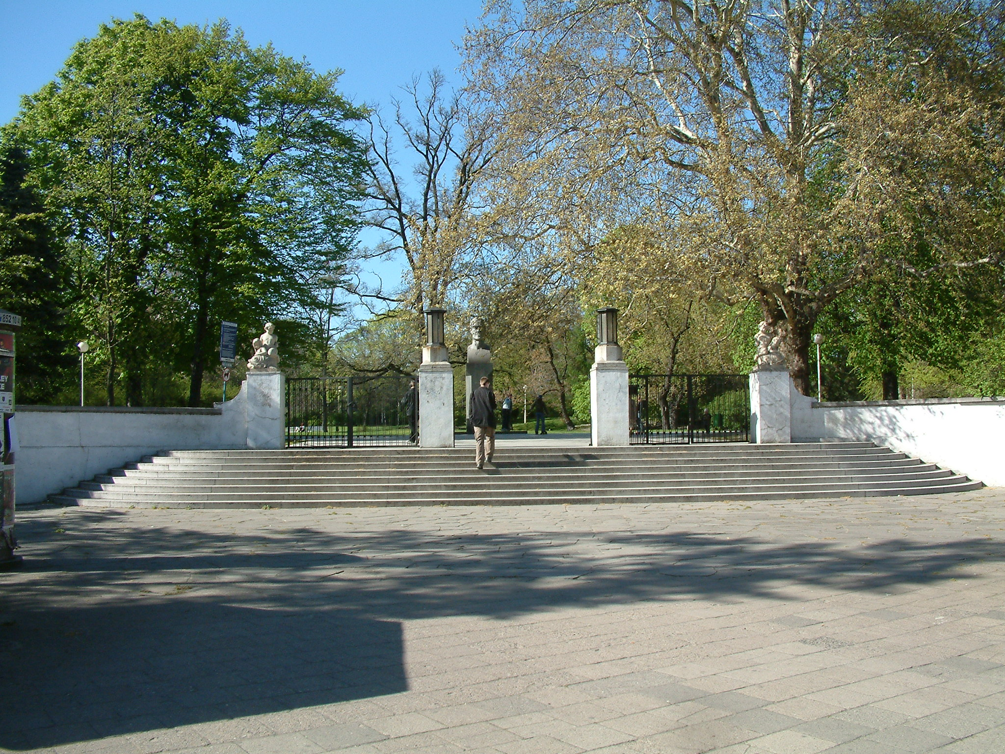 Entrence to Thomas Woodrow Wilson's Park in Poznań